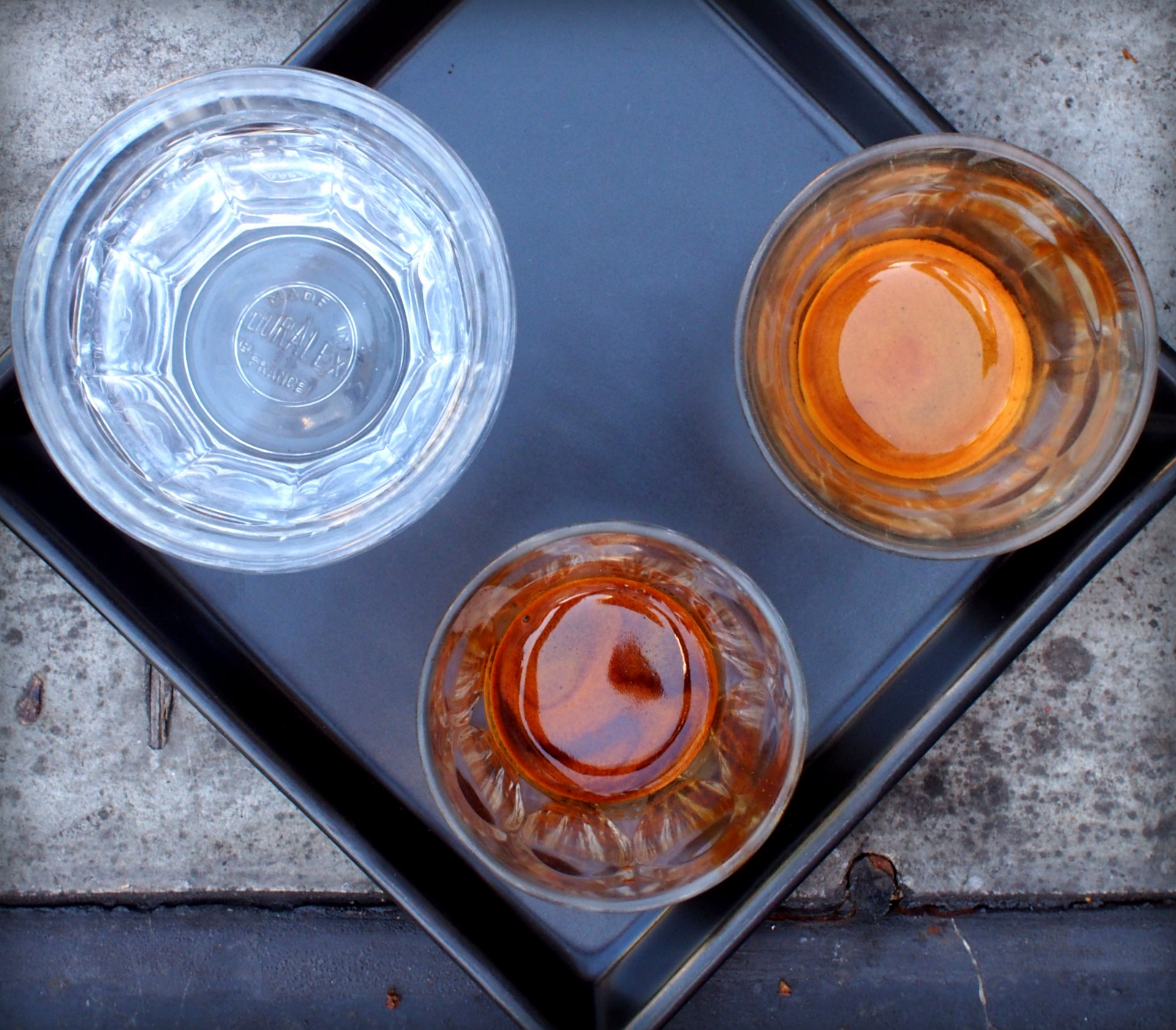 A "double ristretto" at Doppio Ristretto in Chiang Mai, Thailand. The cup at the bottom contains the first half of an espresso, the cup on the right contains the second half. The beans used for it are a blend of Ethiopian, Papua New Guinean, and Brazilian arabica.